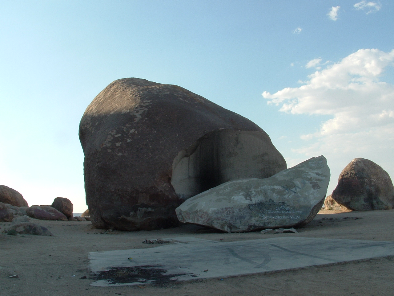 The Giant Rock nearby Landers, CA. The fragment in the foreground broke off from the main boulder on February 23, 2000, due to unknown causes. The concrete pad is a former restaurant building that was part of the Giant Rock Airport that was leased from the U.S. Government by George Van Tassel and his family during the late 1950's thru the 1970's. The Giant Rock stands about 7 stories tall and is the largest freestanding boulder in North America.